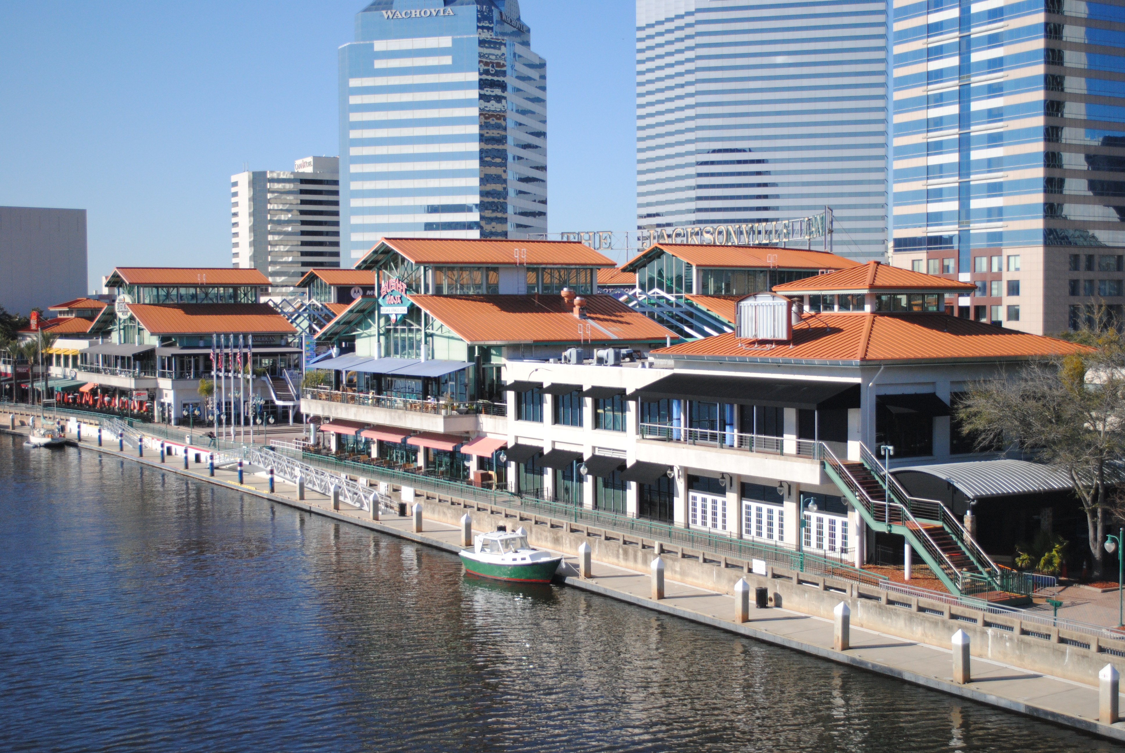 The Jacksonville Landing in downtown Jacksonville, Florida.